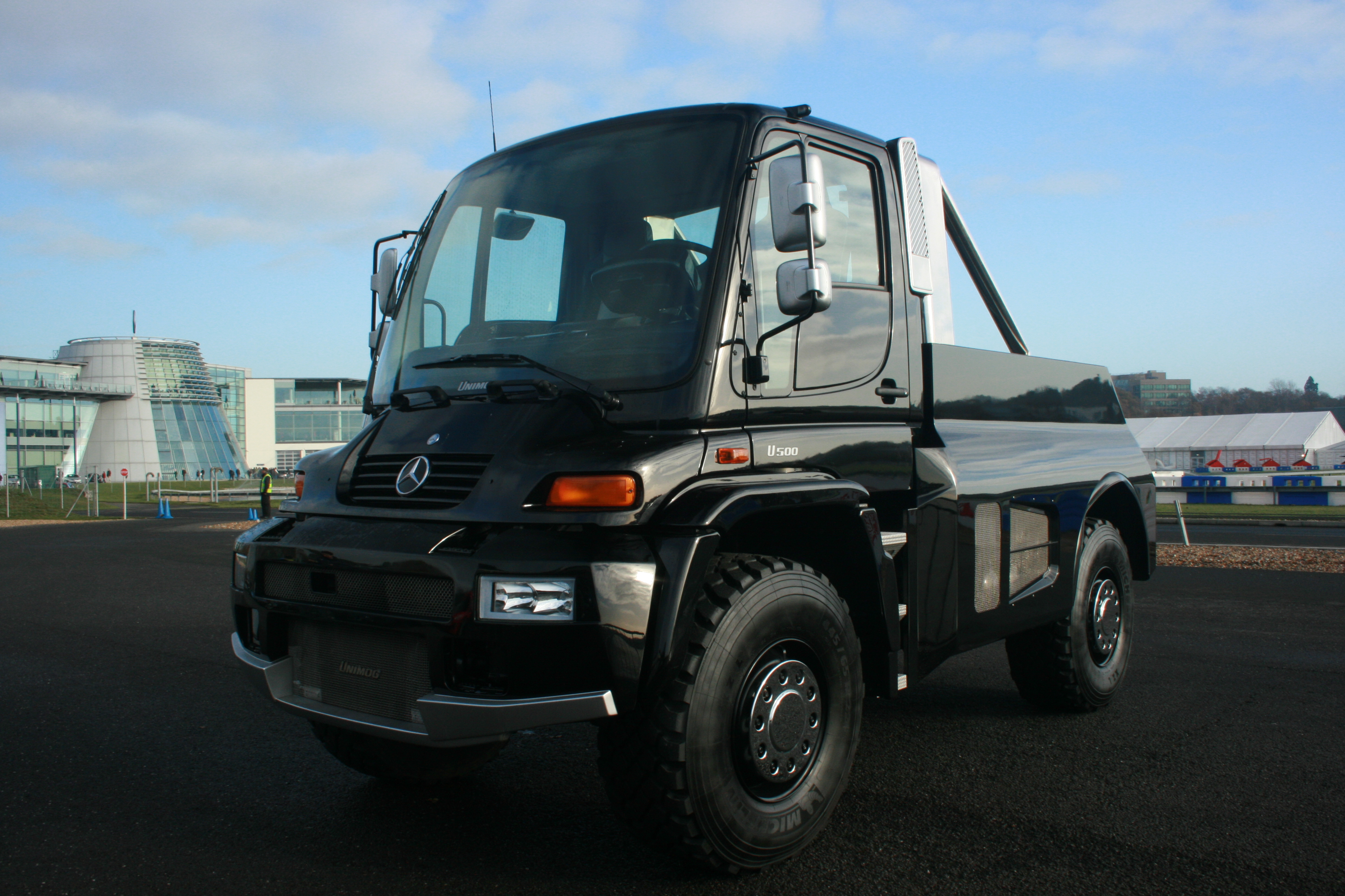 Brabus Unimog U500 Black Edition at the Mercedes-Benz World in Surrey.